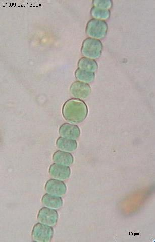 Cyanobacteria - thought to be among the first organisms on Earth, cyanobacteria convert carbon dioxide into oxygen by using photosynthesis.